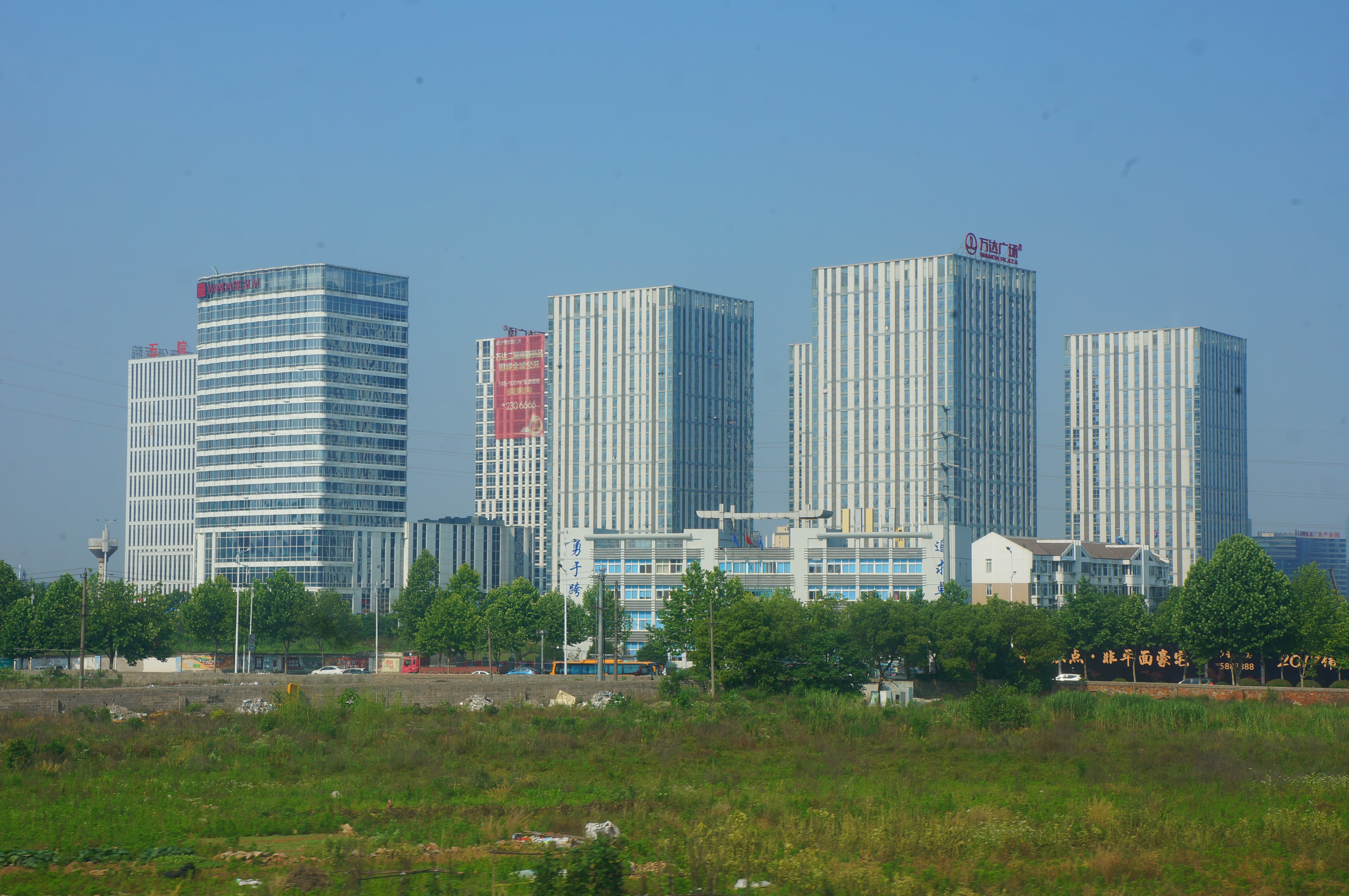 201705 Wuhu Wanda Plaza